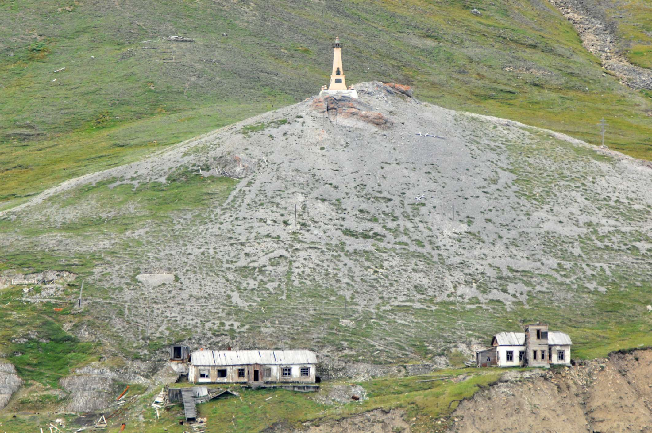 Cape Dezhnev (Chukotka, Russia): Lighthouse with Dezhnev Monument; relicts of abandoned village Naukan